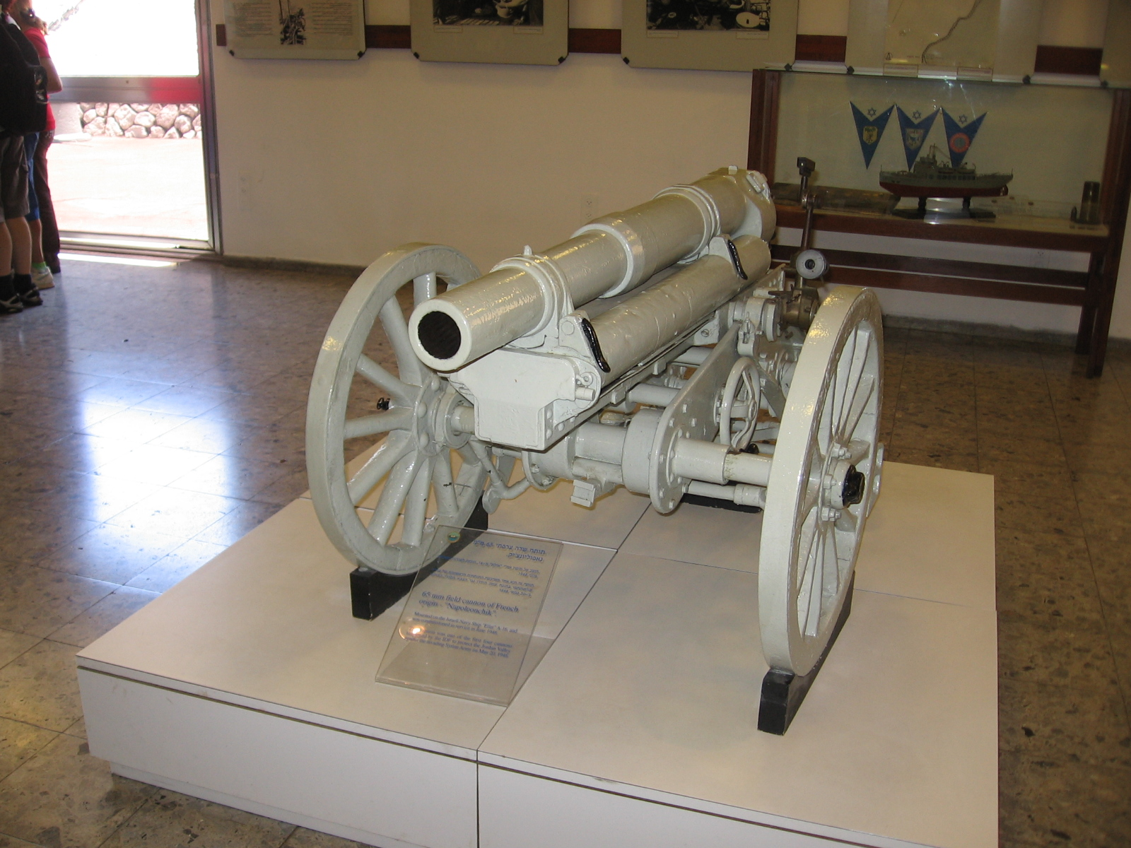 Canon de 65 M modele 1906 Schneider-Ducrest from "INS Eilat (A-16)" in the Clandestine Immigration and Naval Museum, Haifa, Israel.